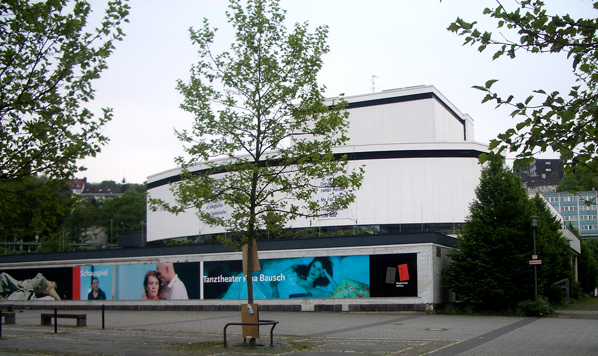 Wuppertal, Germany: Schauspielhaus (drama theatre)